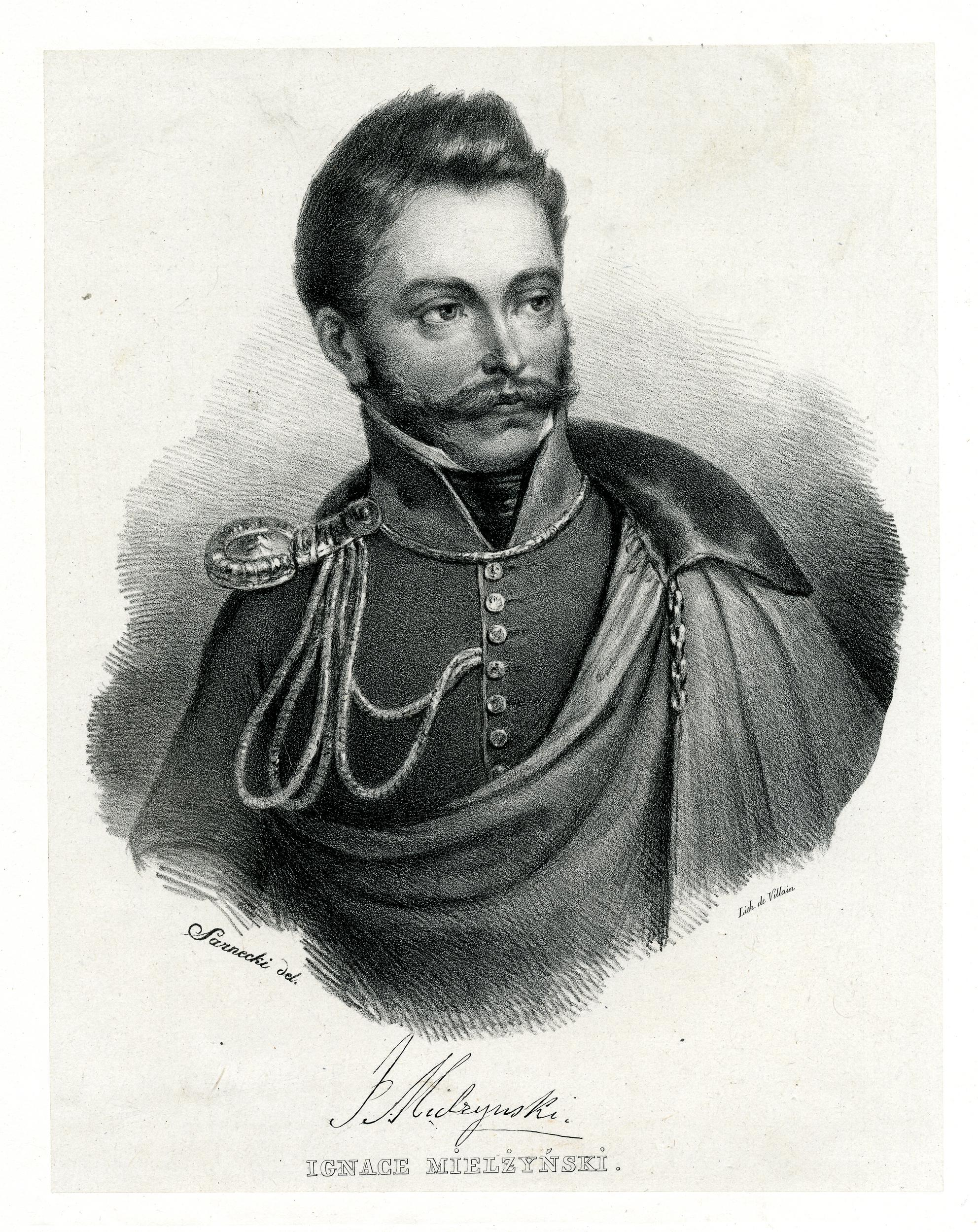 Portrait of Ignacy Mielżyński, half-length, directed to front, face slightly turned and looking to the right, with moustache, wearing uniform jacket with epaulettes, coat hanging from his right shoulder; vignette. Lithograph on chine-collé